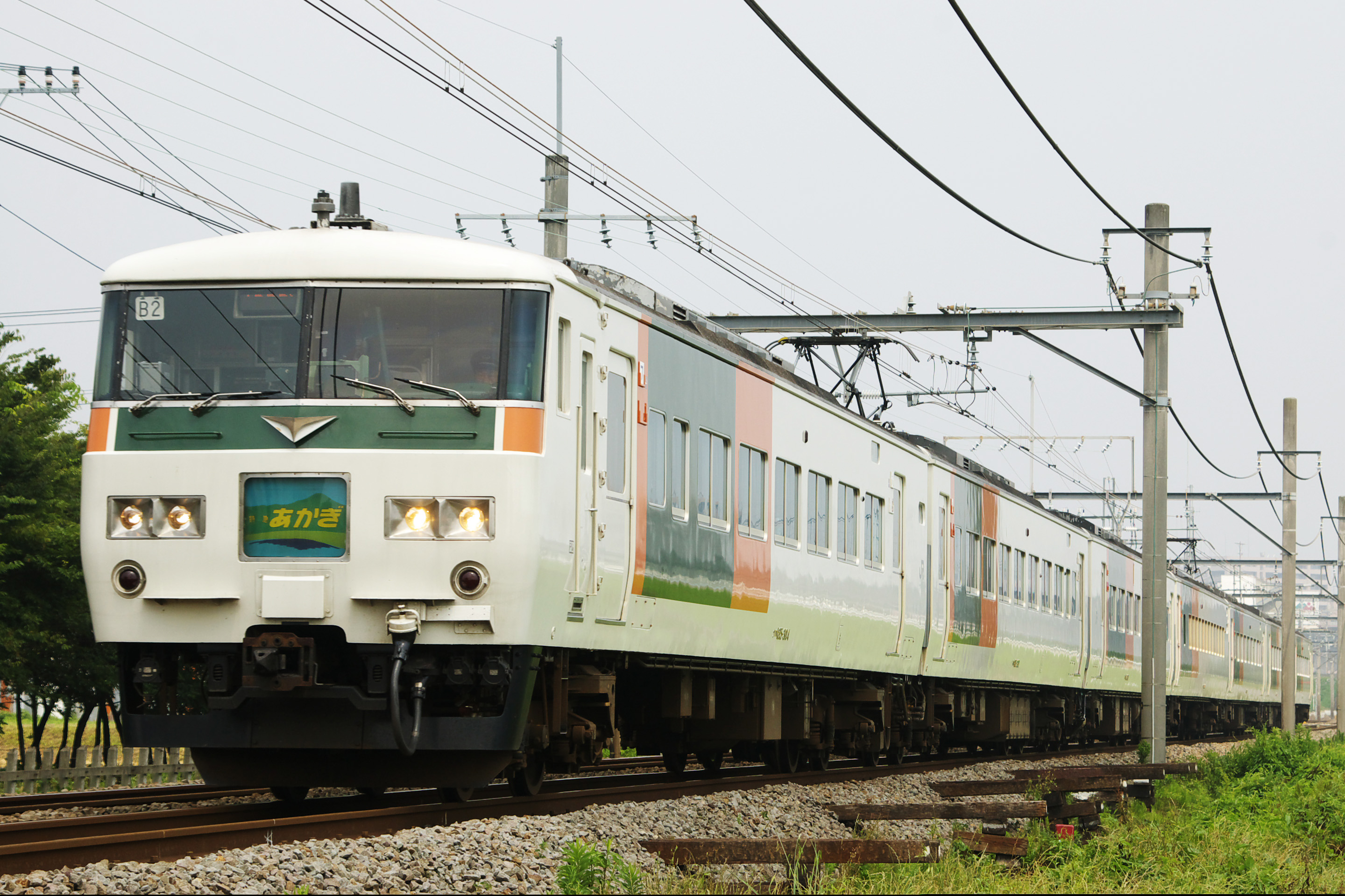 JR East 185-200 series EMU on an "Akagi" limited express service